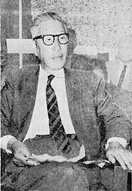 Heo Jeong